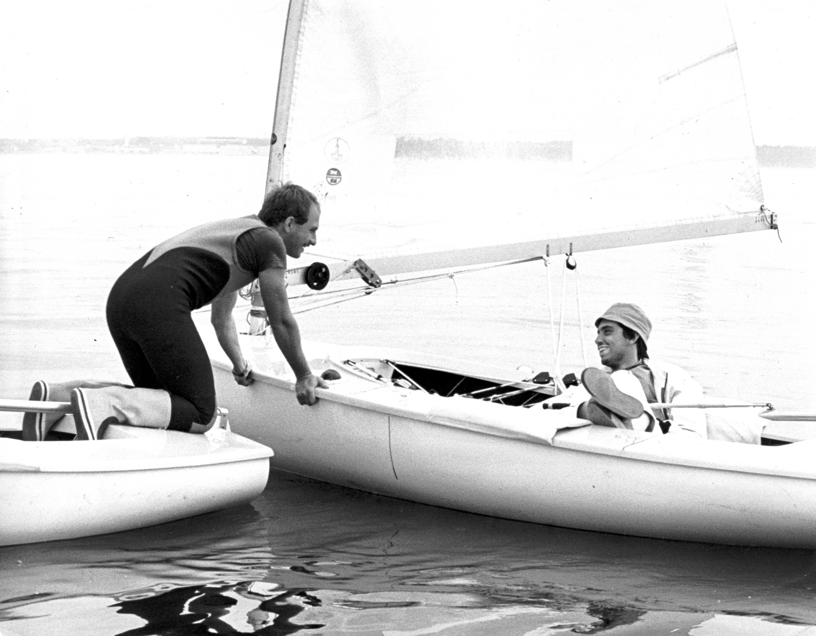 Pictute of Mihai Butucaru (left) and the winner of the Olympic Finn competition of 1980: Esko Rechardt